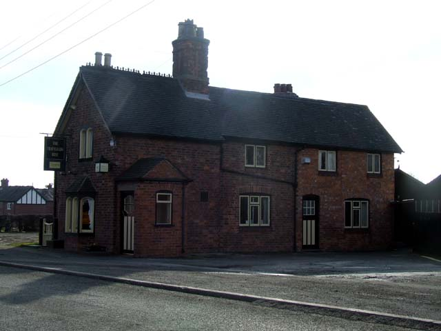 The Travellers Rest. The Travellers rest public house on the A51 at Alpraham